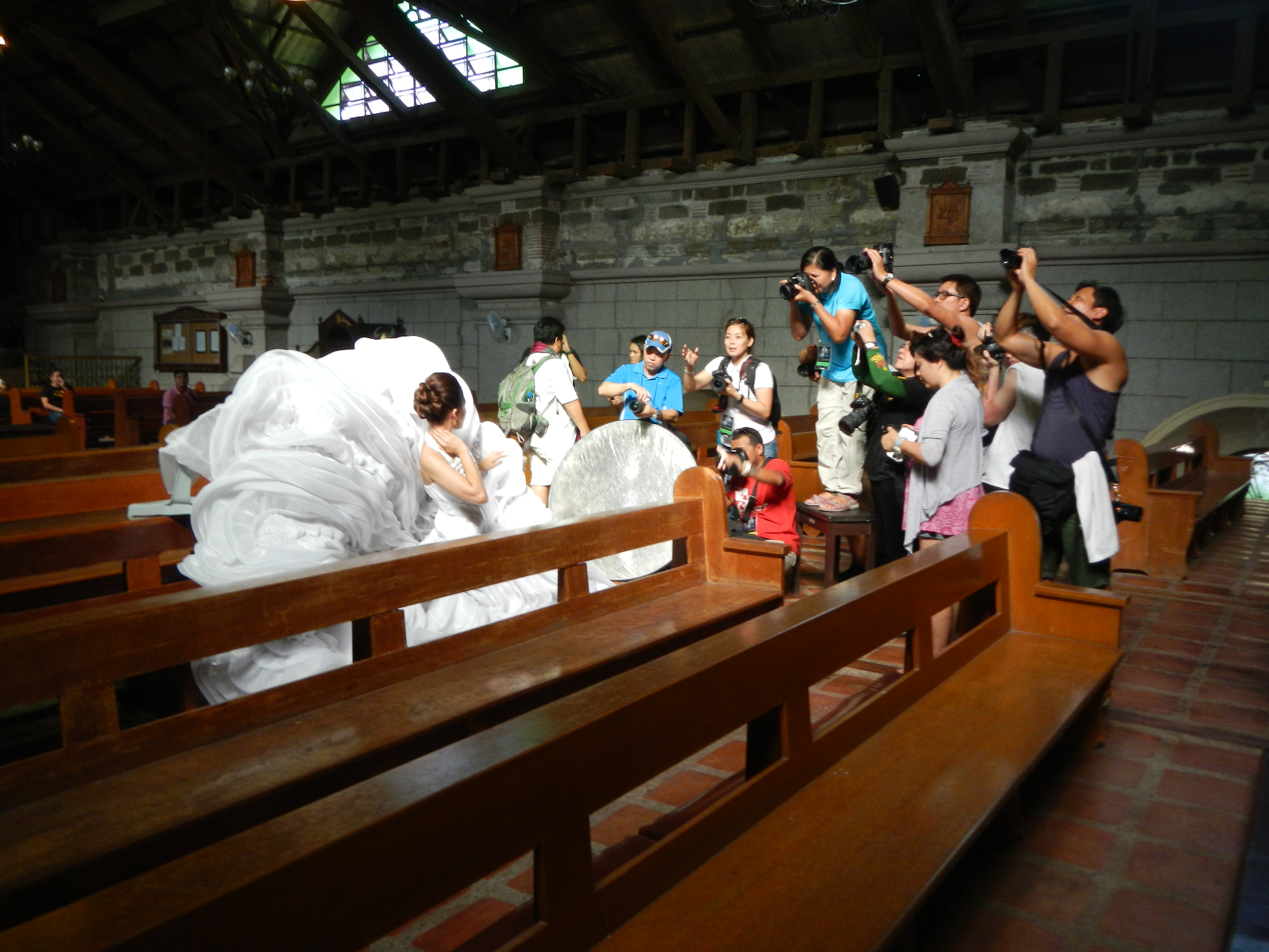 Model (profession): unidentified Paula, a Filipina model at a photo session by professional Filipino photographers, Photographing a model inside th eCabambangan (Poblacion)], the San Guillermo Church, Bacolor, in Bacolor, Pampanga, San Guillermo Parish ChurchSan Guillermo Parish Church including its heritage San Guillermo Parish Archives and Museum (Bacolor, Pampanga).